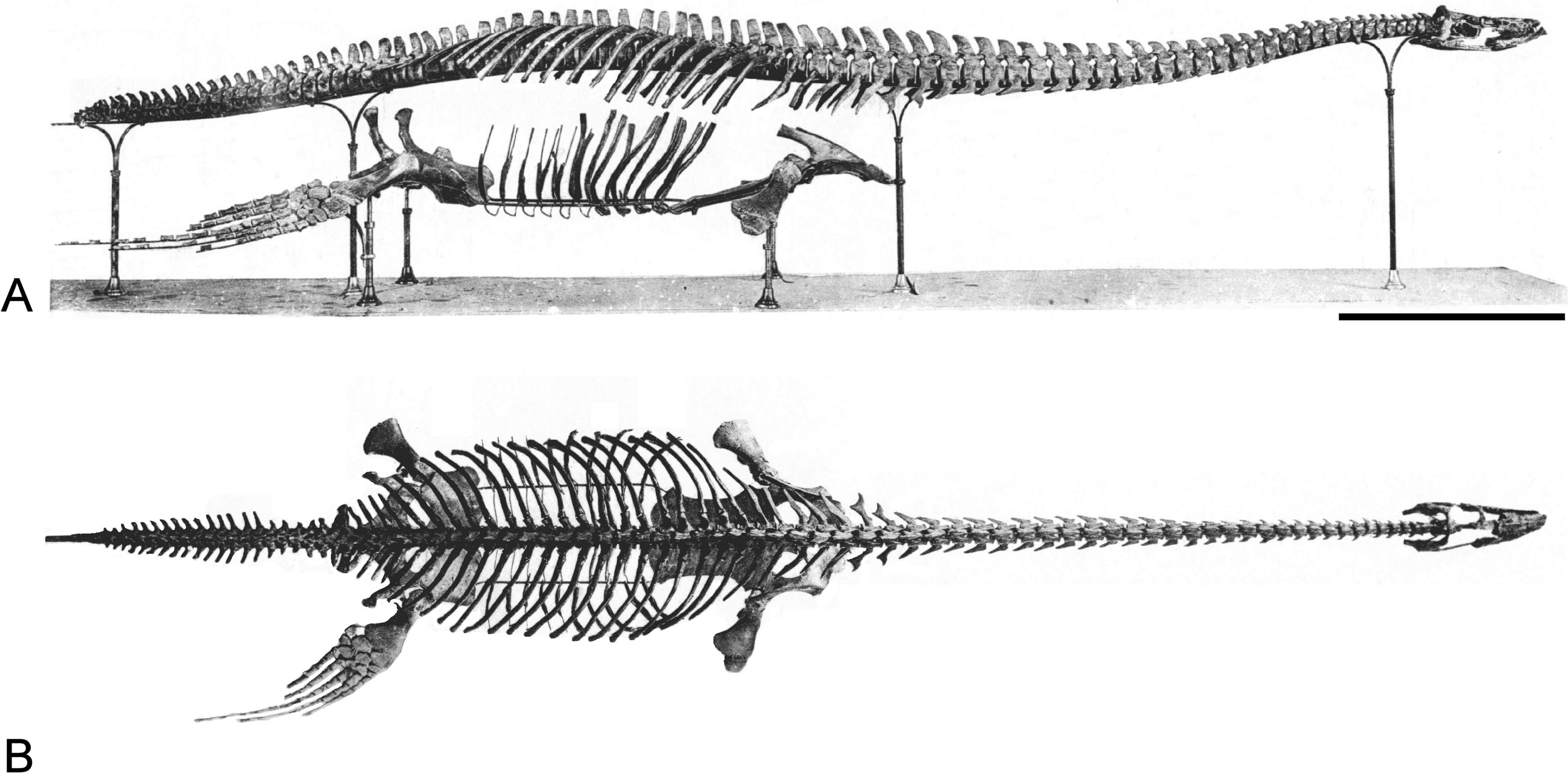 Brancasaurus brancai Wegner, 1914, Isterberg Formation, upper Berriasian of Gronau (Westfalen), North Rhine-Westphalia. GPMM A3.B4 (holotype), mounted skeleton as originally displayed at the Geological-Palaeontological Museum in Münster (from Wegner, 1914): (A) Lateral and (B) dorsal views. Scale bar = 500 mm.